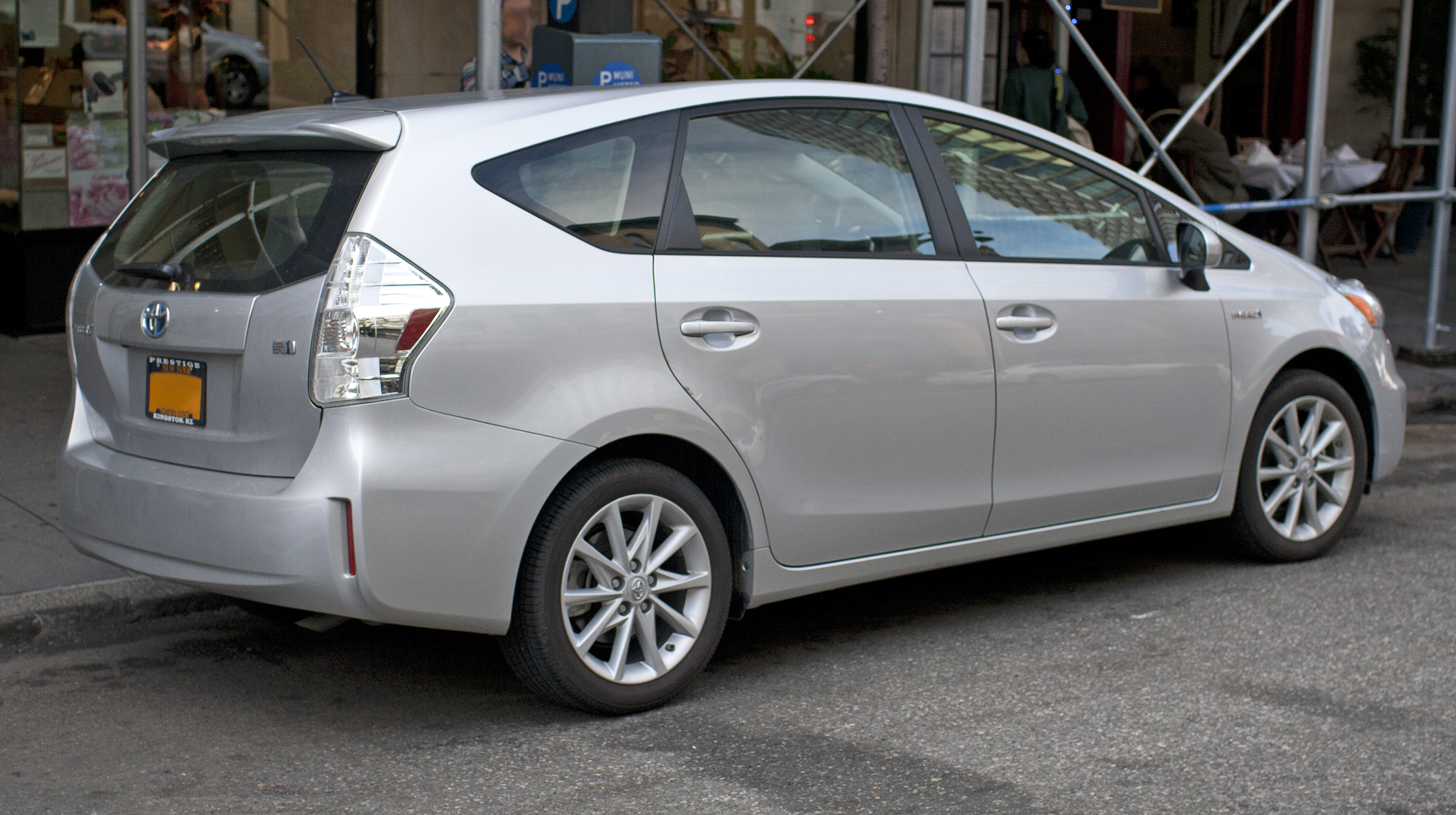 2012 Toyota Prius V in NYC